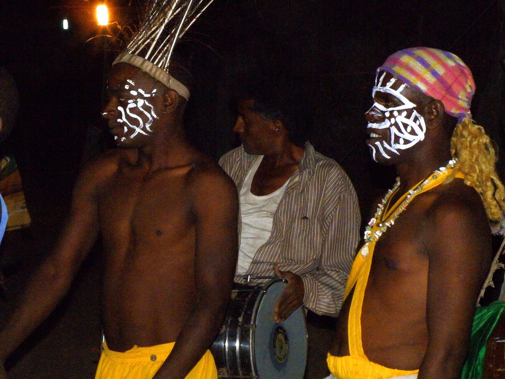 Siddi Folk Dancers, at Devaliya Naka, Sasan Gir, Gujarat, India. A tribe that descended from Ethiopia.